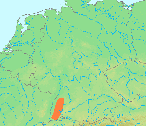 Locator maps for mountain ranges : Location Schwarzwald.PNG